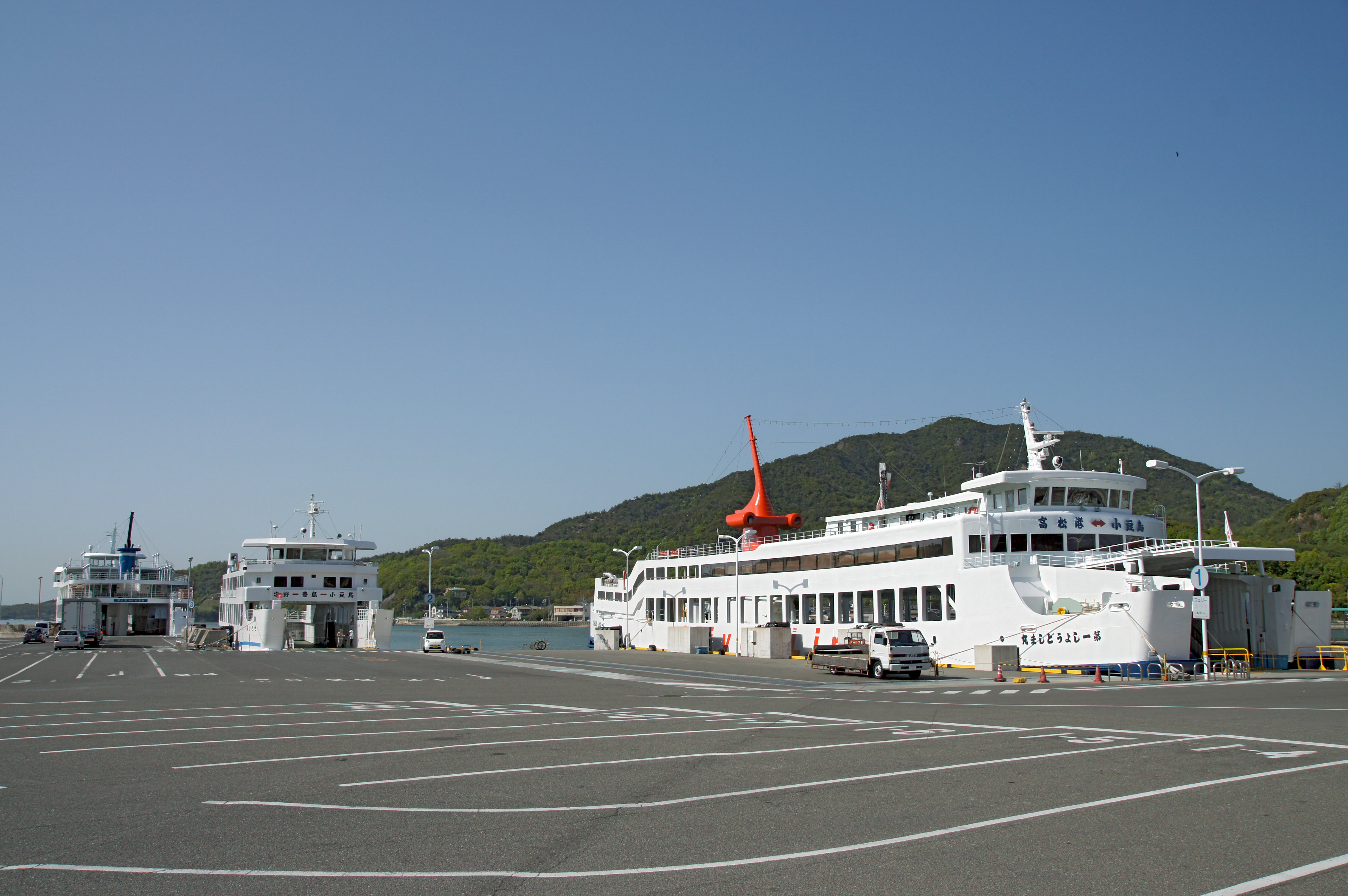 Tonosho Port in Shodo Island, Tonosho, Kagawa Prefecture, Japan